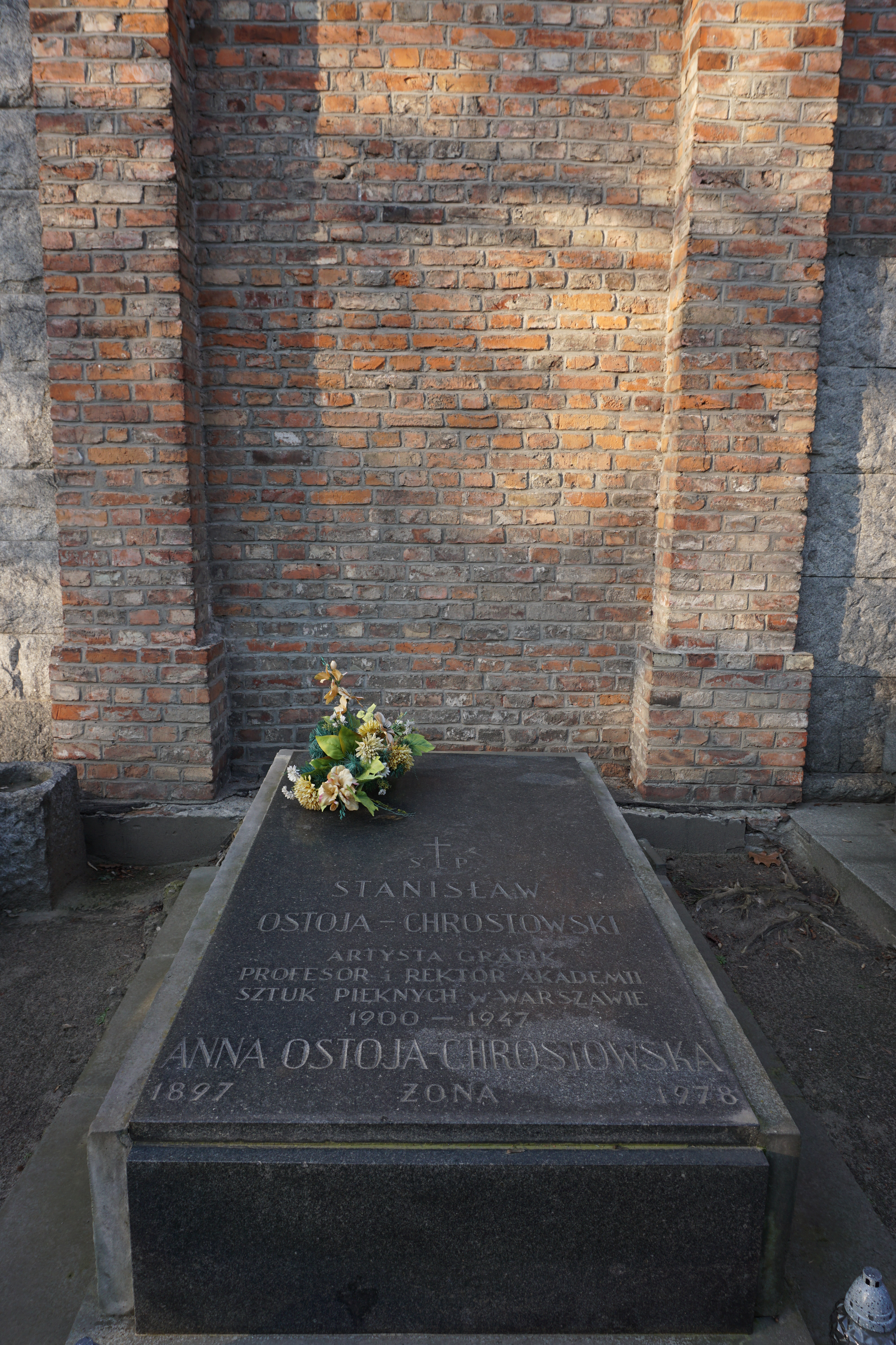 The grave of Stanisław Ostoi-Chrostowski at the Powązki Cemetery (Avenue of Deserved, grave 66, 67)